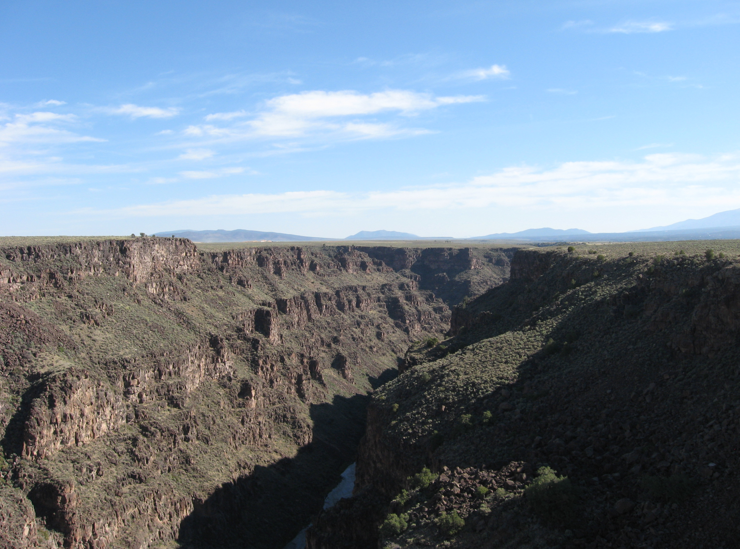 View from the Rio Grande Gorge Bridge